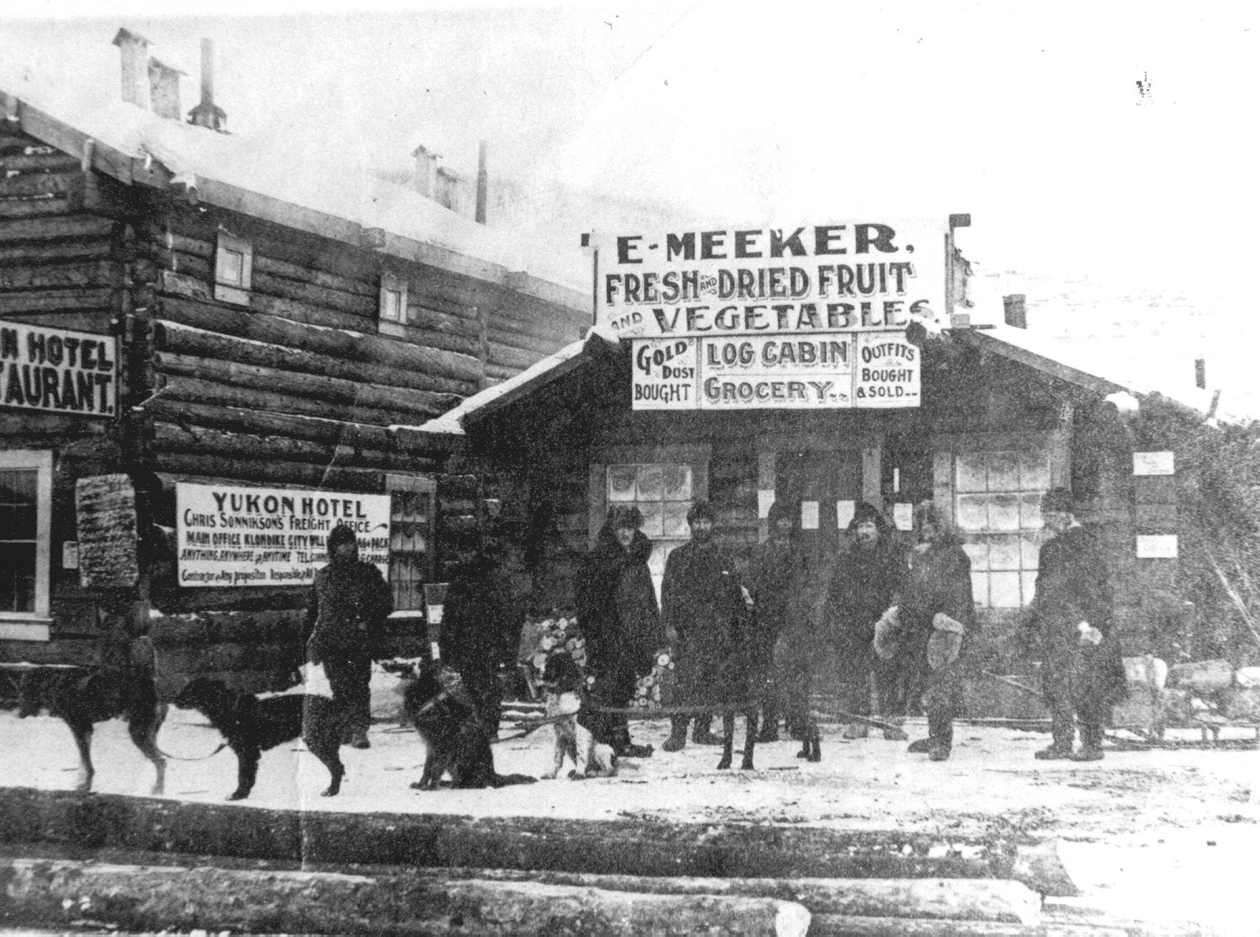 Ezra Meeker (far right) and others standing outside his grocery store, Dawson City, Yukon Territory, Canada